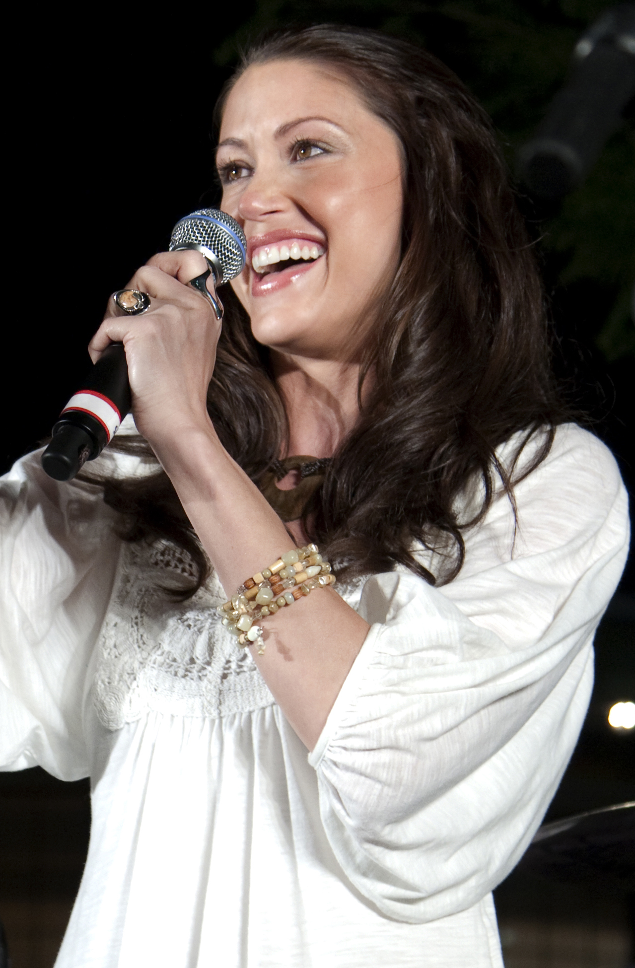 Shannon Elizabeth in March 2009